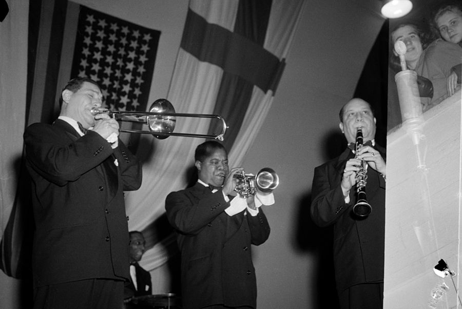 Satchmo plays the trumpet in Messuhalli (today Töölö Sports Hall) between Jack Teagarden on trombone and Barney Bigard on clarinet.